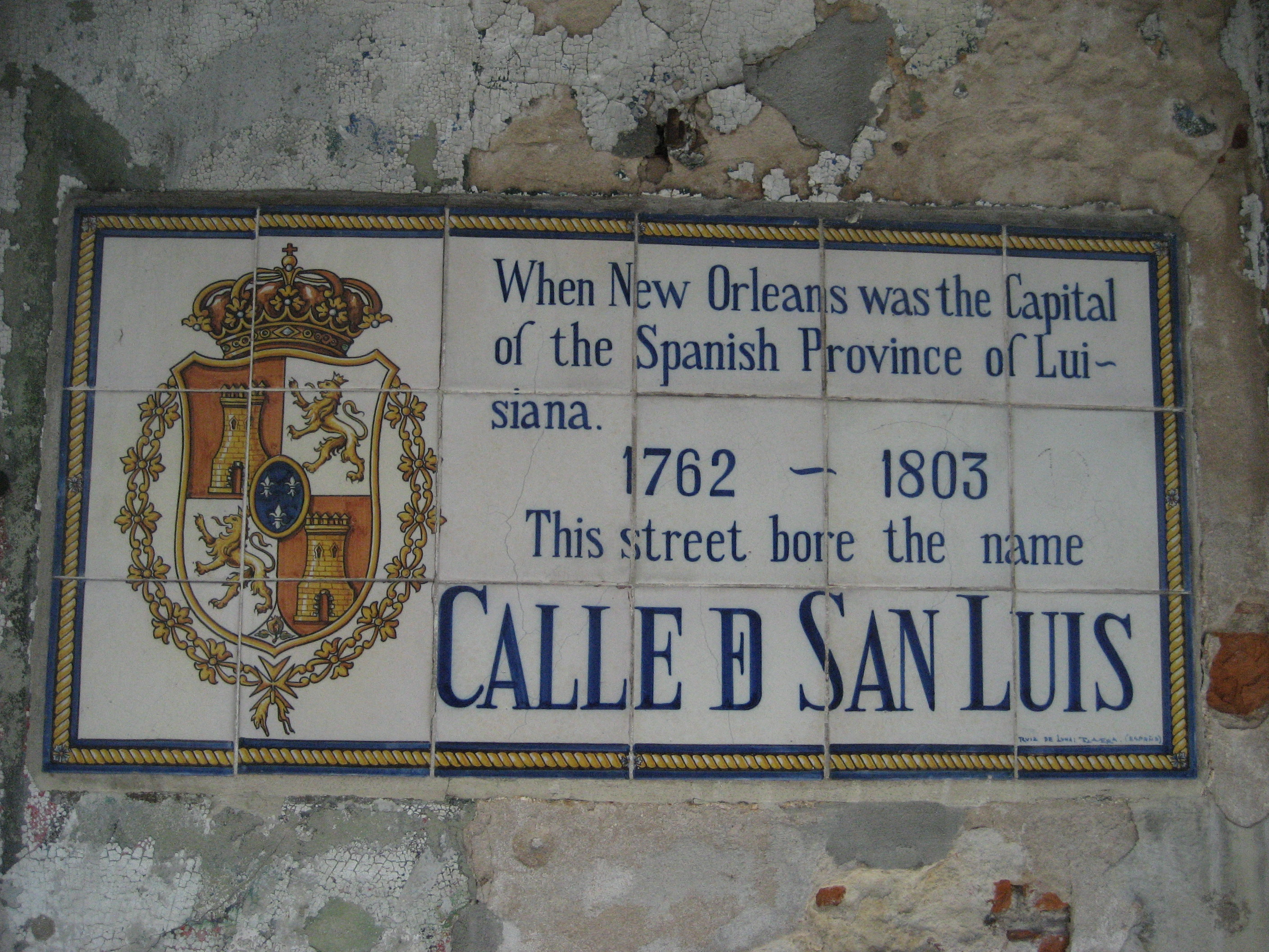 New Orleans: St. Louis Street, French Quarter